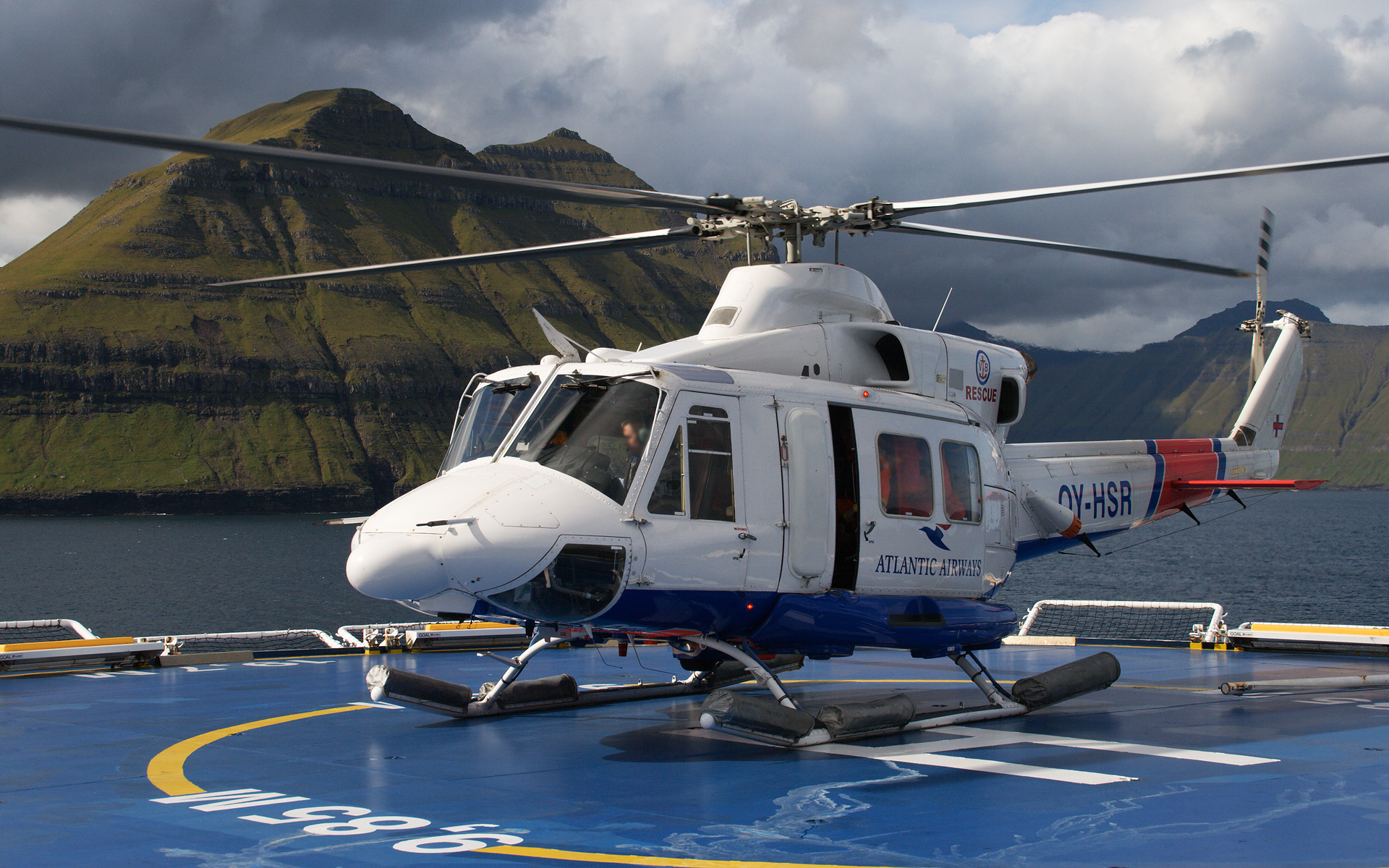 Bell 412ep helicopter (OY-HSR) of the faroese Atlantic Airways landed on the helipad of Norröna.